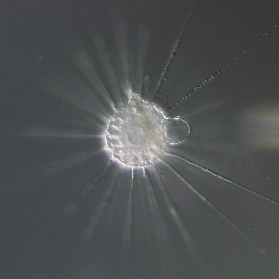 Actinophrys sol / from Ryugaoka park, Ryūgasaki, Ibaraki Pref., Japan / Microscope:Leica DMRD (DIC)